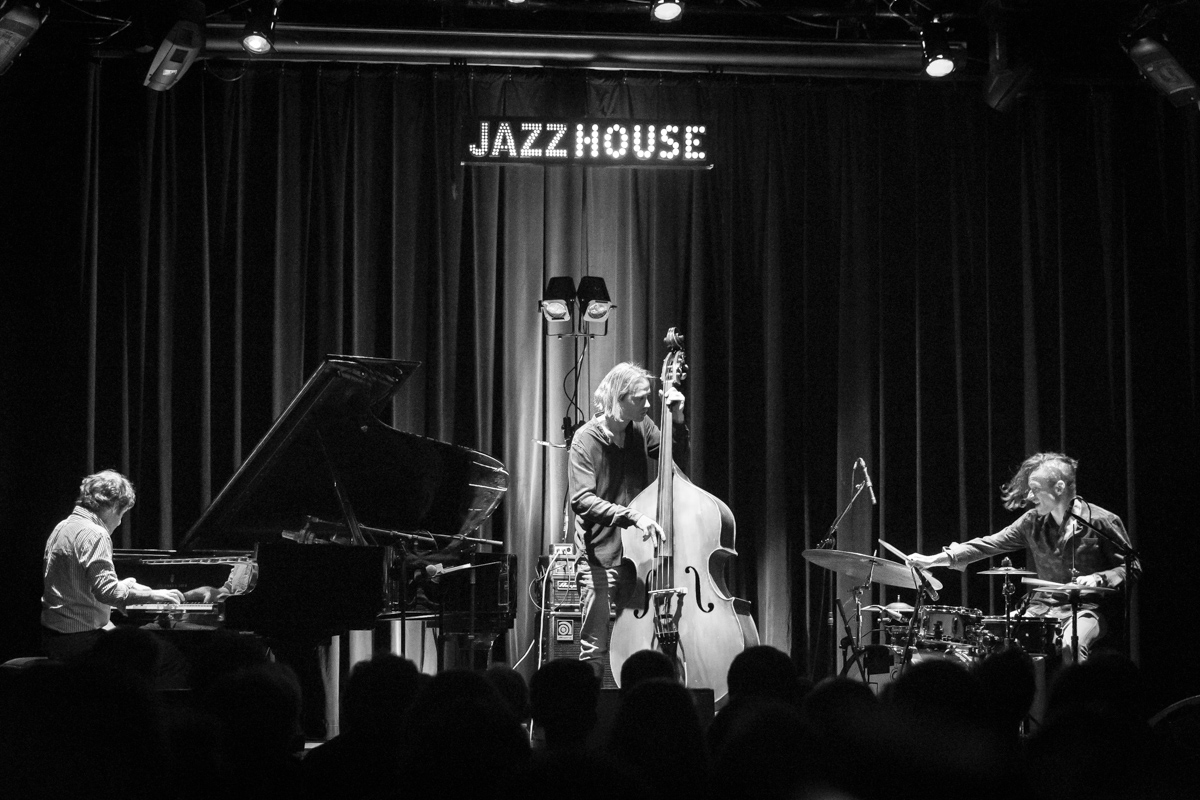 Phronesis at the stage of Jazzhouse. The concert took place on 12. July 2017 in Copenhagen as part of Copenhagen Jazz Festival. Lineup:Jasper Høiby (double bass)Ivo Neame (piano)Anton Eger (drums)